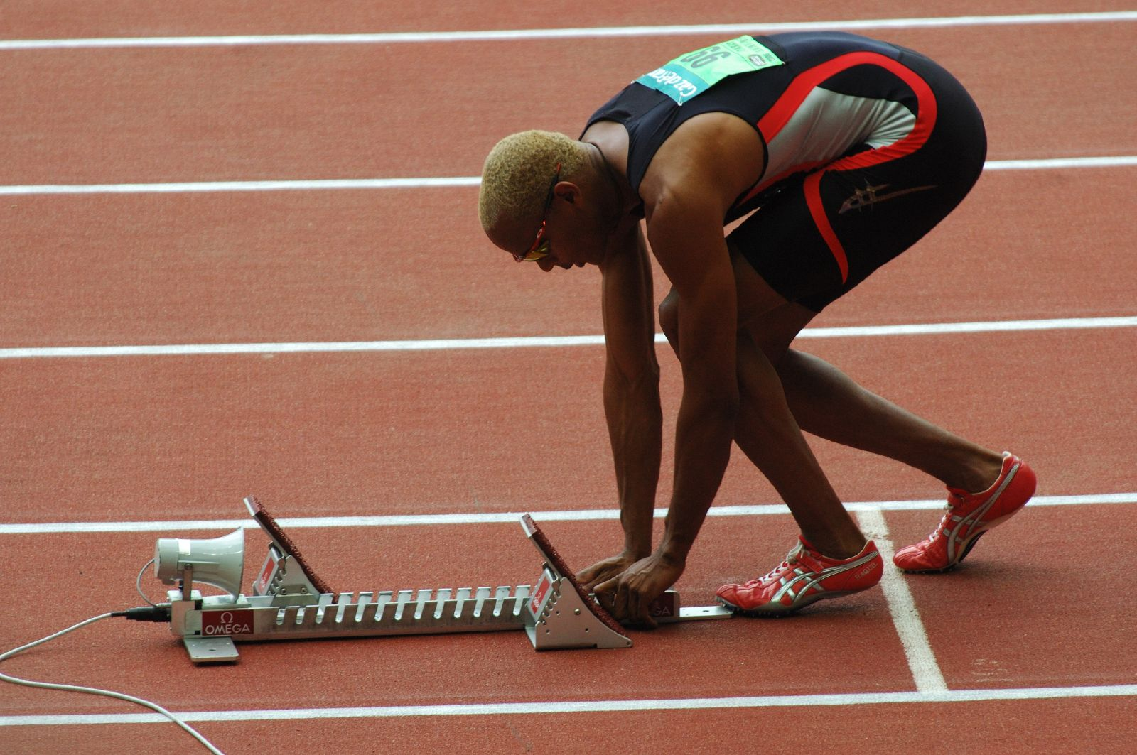 Marc Raquil prepares for the start at the Golden League 2006 Gaz de France meet in Paris Saint-Denis.